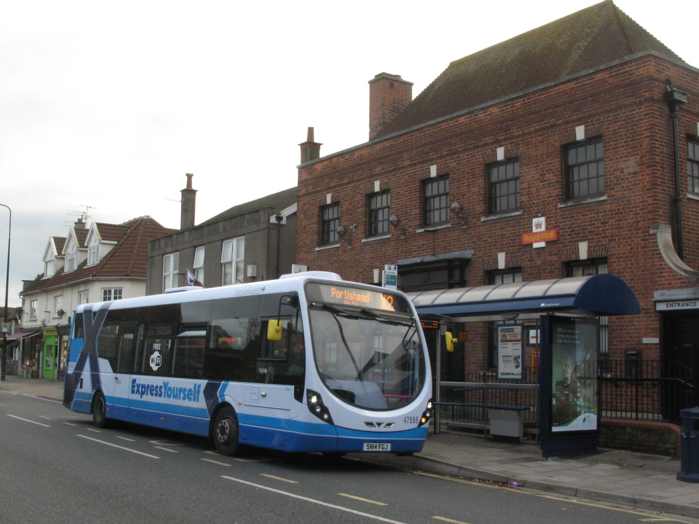 New Wright StreetLite DF SN14FGJ is number 47556 in the First Somerset and Avon fleet. It carries Express Yourself livery for routes between Bristol and Portishead. It is outside the Post Office in Portishead having arrived on the X2.